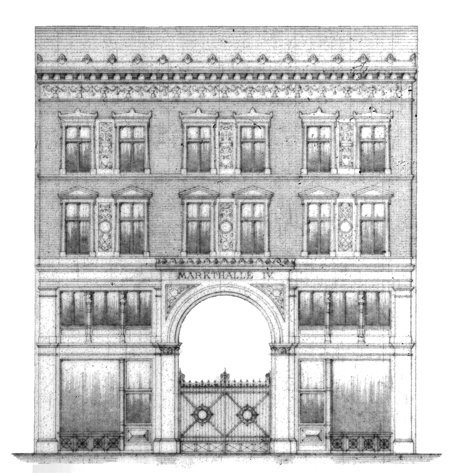 Berlin - market hall IV, facade Dorotheenstraße